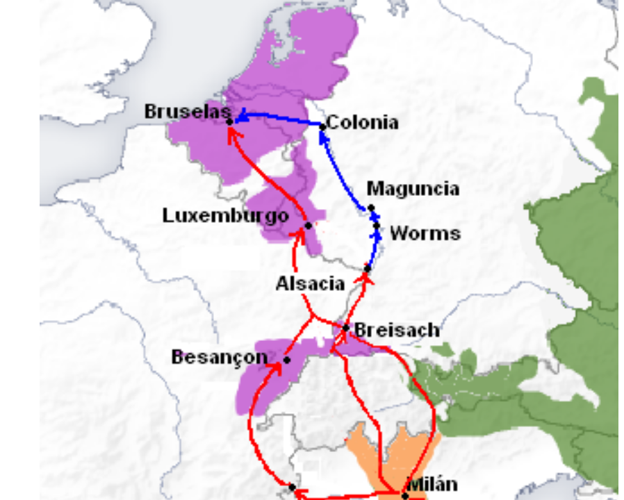 The Spanish Road in times of Philip II, to bring the Tercios of Spain to Flanders.